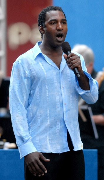 Cropped picture of the File:Norm Lewis.jpg photograph that could currently be the best option for a primary photograph for its subject on Wikipedia sites. Norm Lewis.